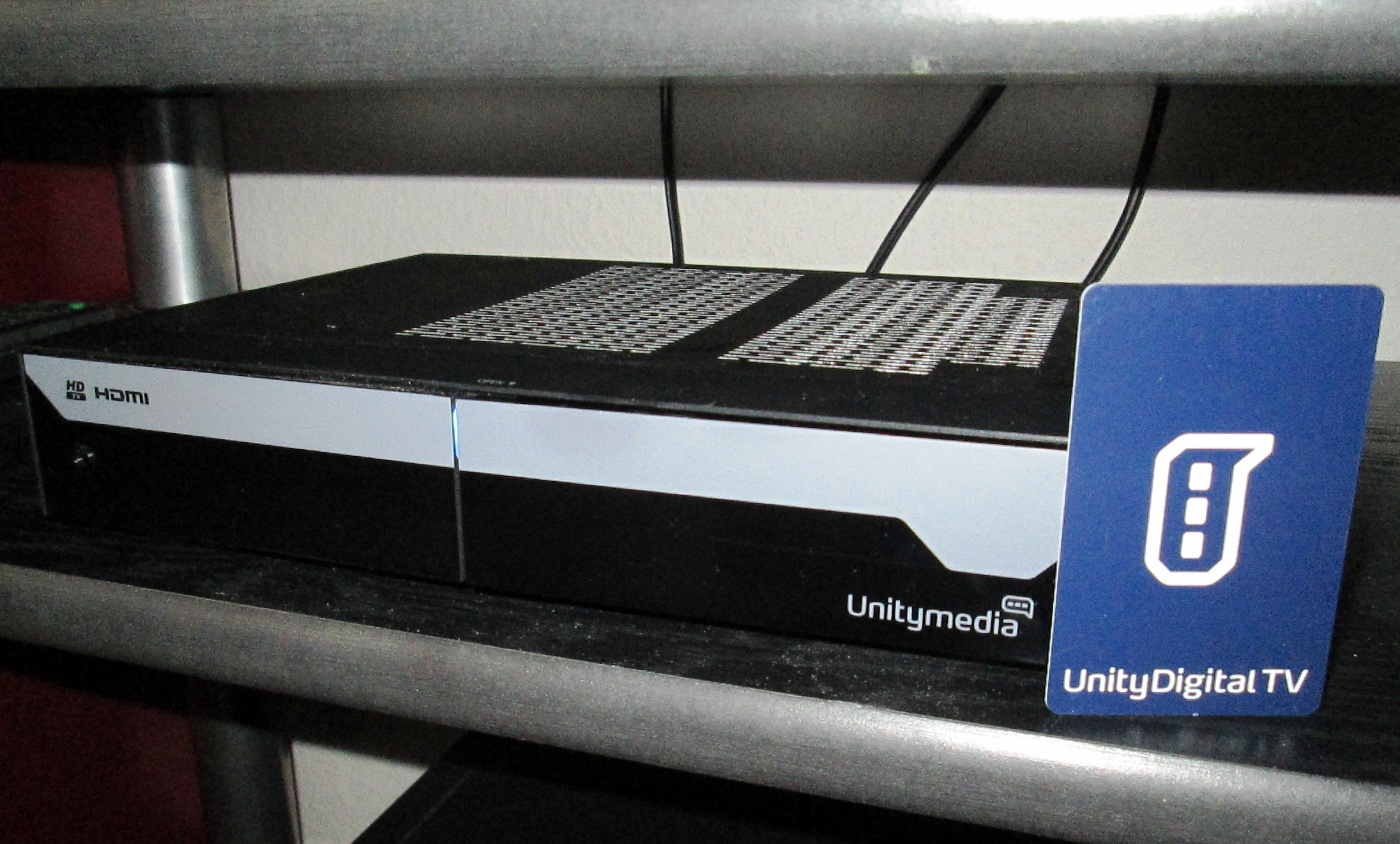 HD-Receiver and Smart Card